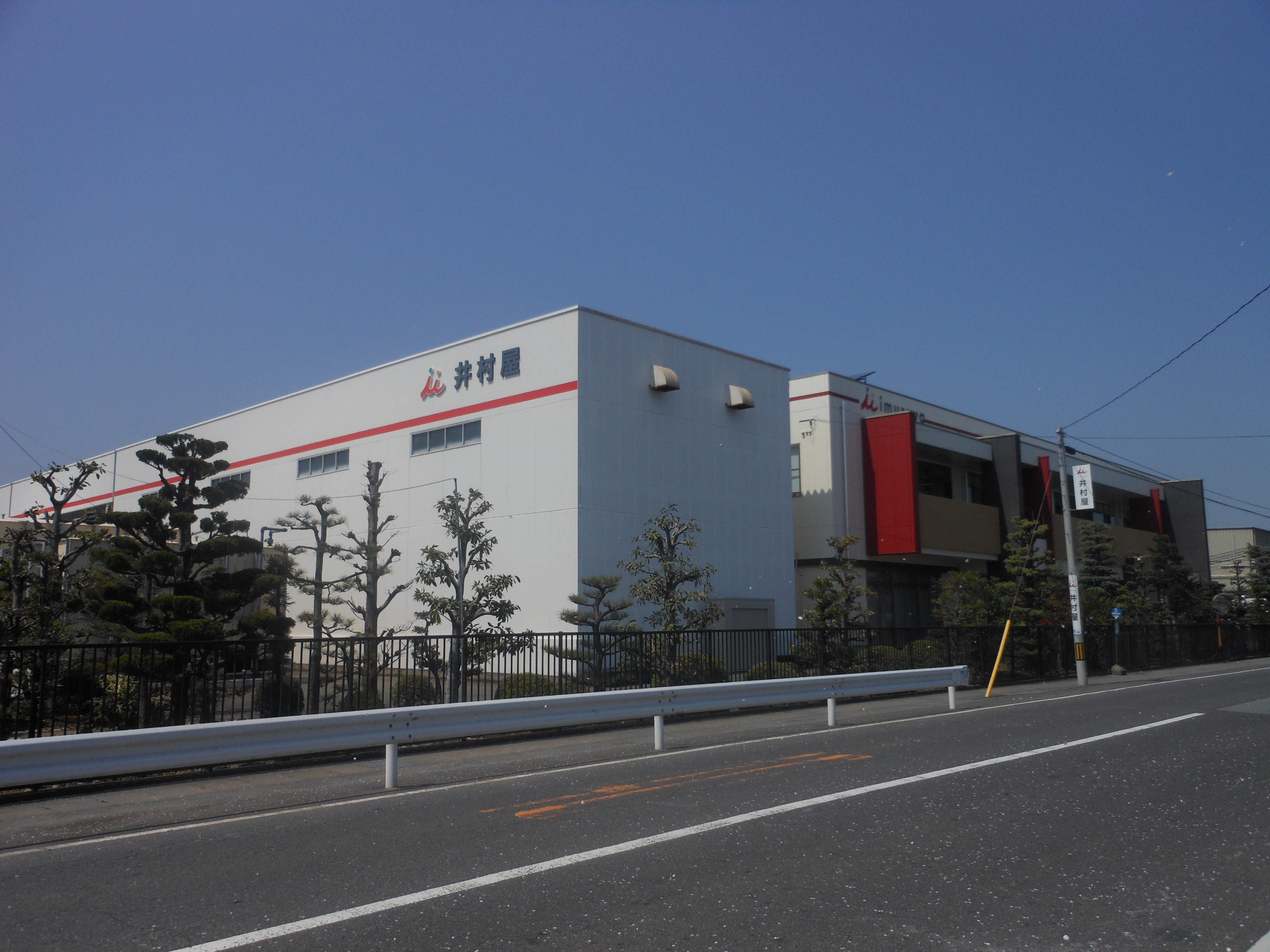 This is the head office of Imuraya Group in Takajaya, Tsu, Mie, Japan.